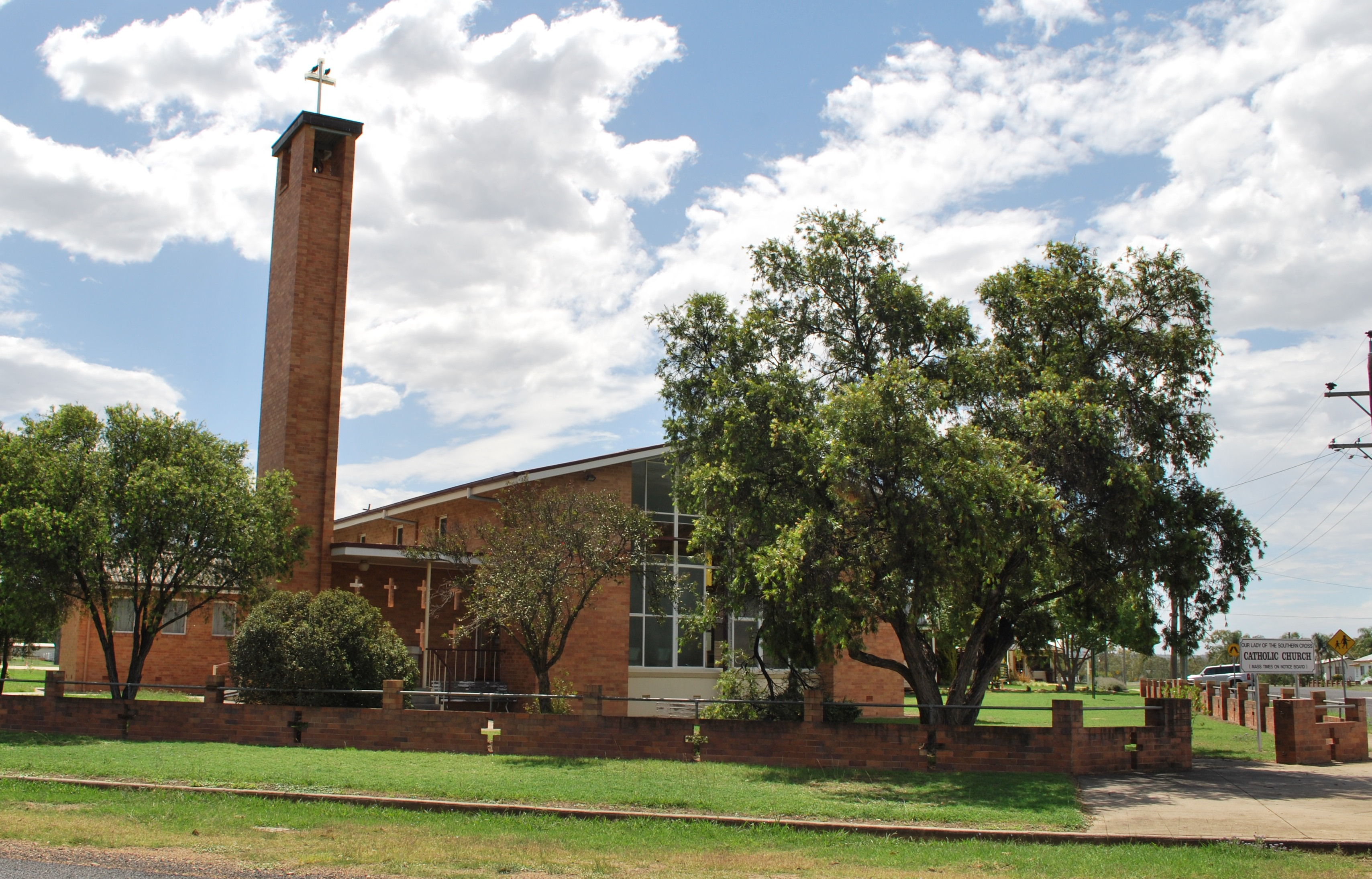 Our Lady of the Southern Cross Roman Catholic church at Inglewood, Queensland